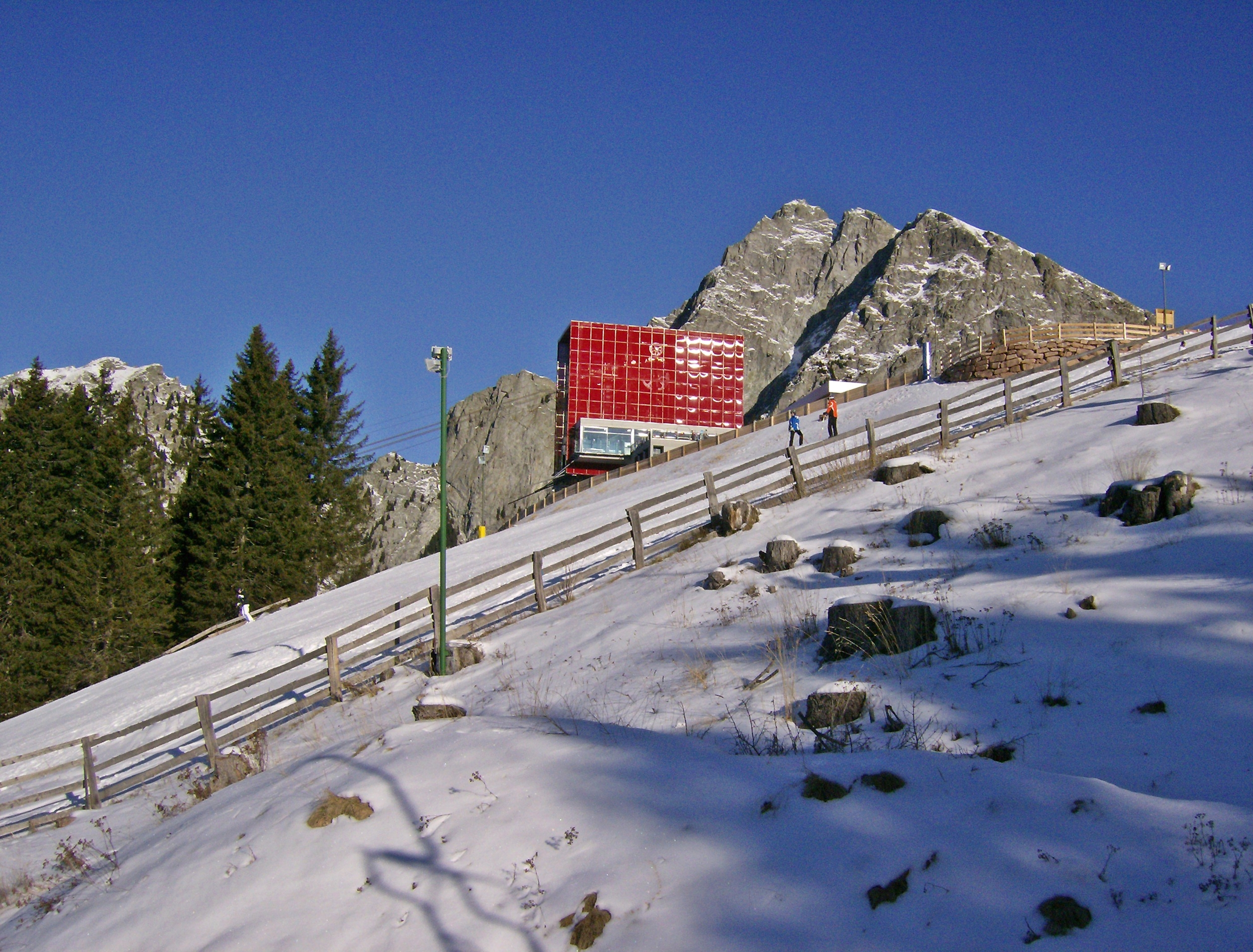 The top station of the ski lift and a ski piste in the skiing area Meran 2000, South Tyrol.